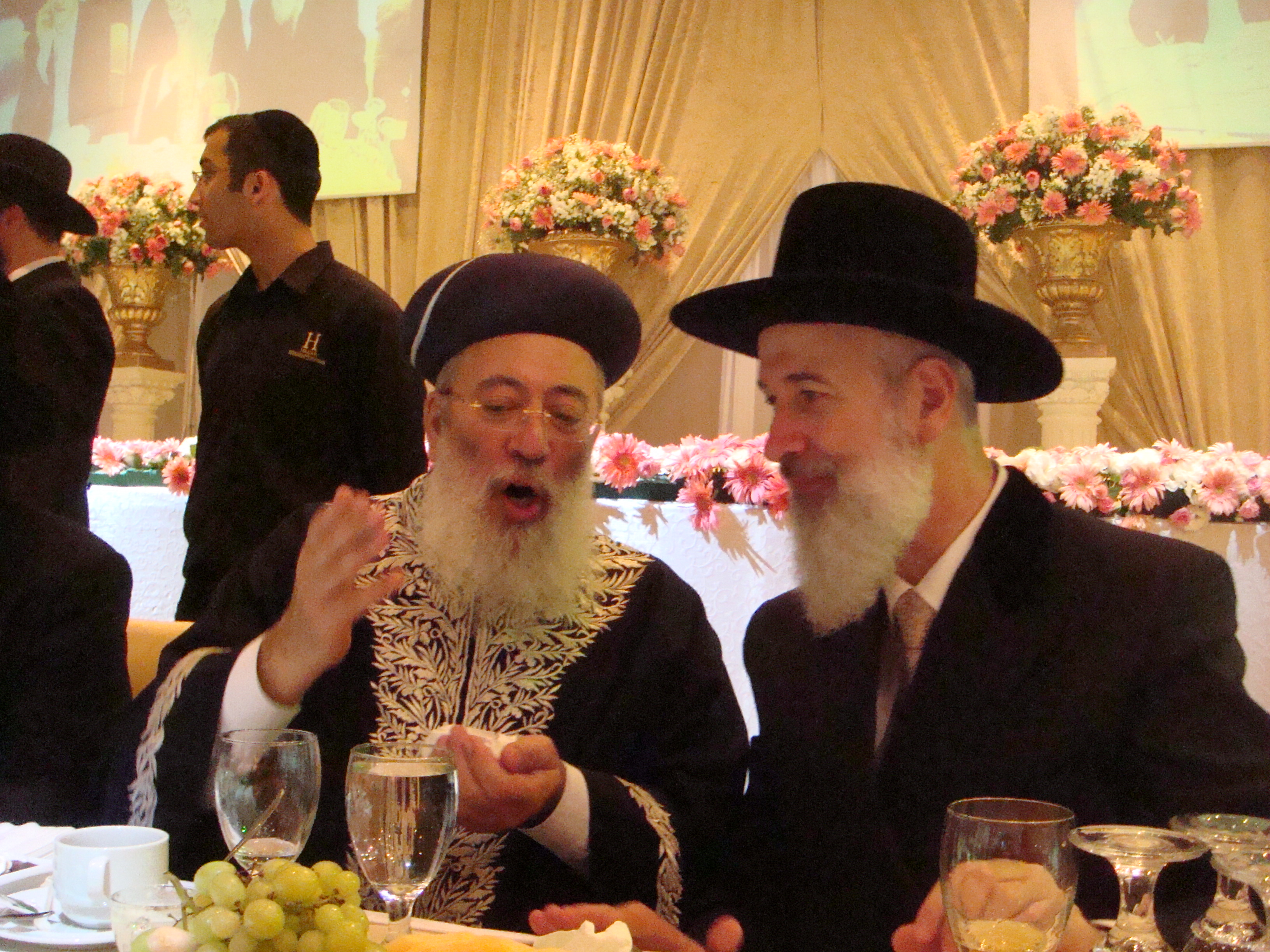 The two Chief Rabbis of Israel, the Rishon LeZion Rabbi Shlomo Amar and Rabbi Yona Metzger.